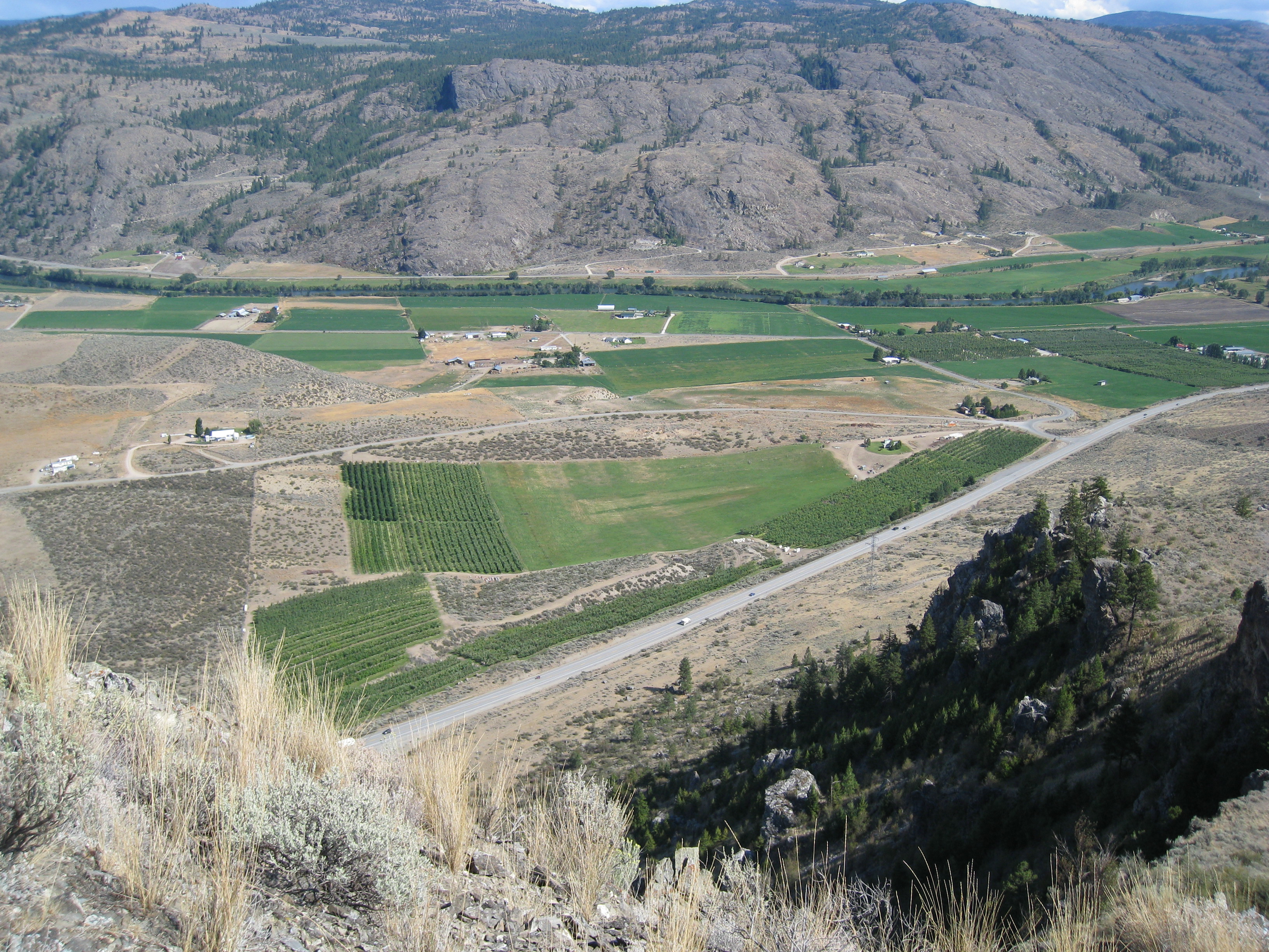 Agricultural land and mountains in Omak, Washington past the central business district.